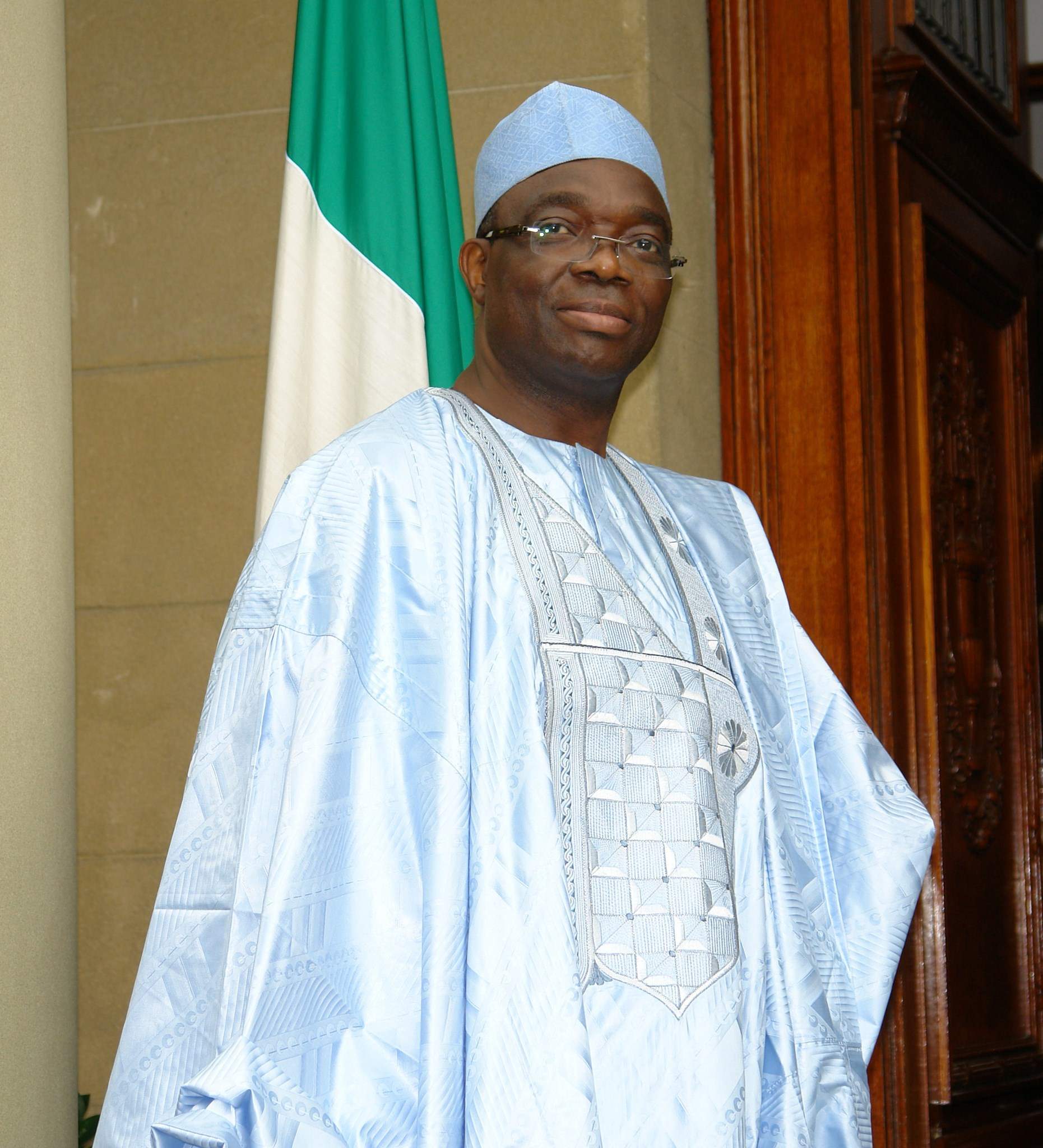 Bashir Musa in Berne Embassy